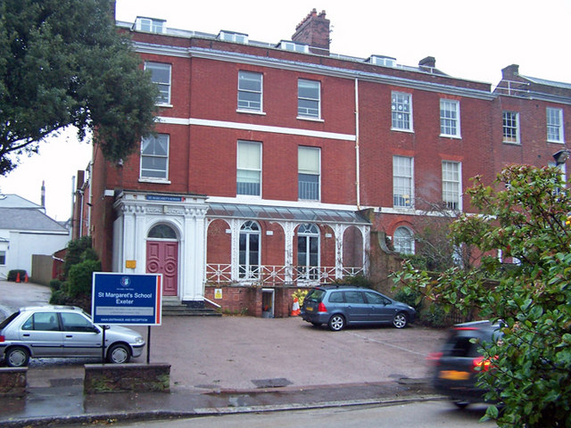 St Margaret's School, Exeter This public school occupies several large houses facing Magdalen Road.